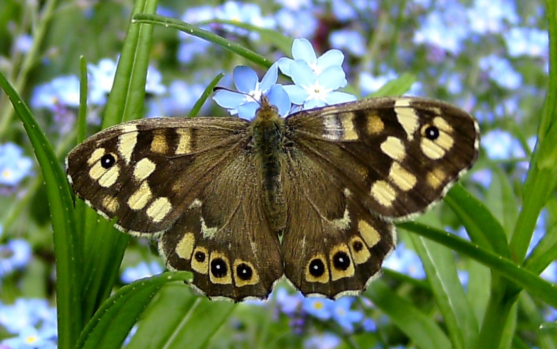 Pararge aegeria, Frankfurt am Main, Germany